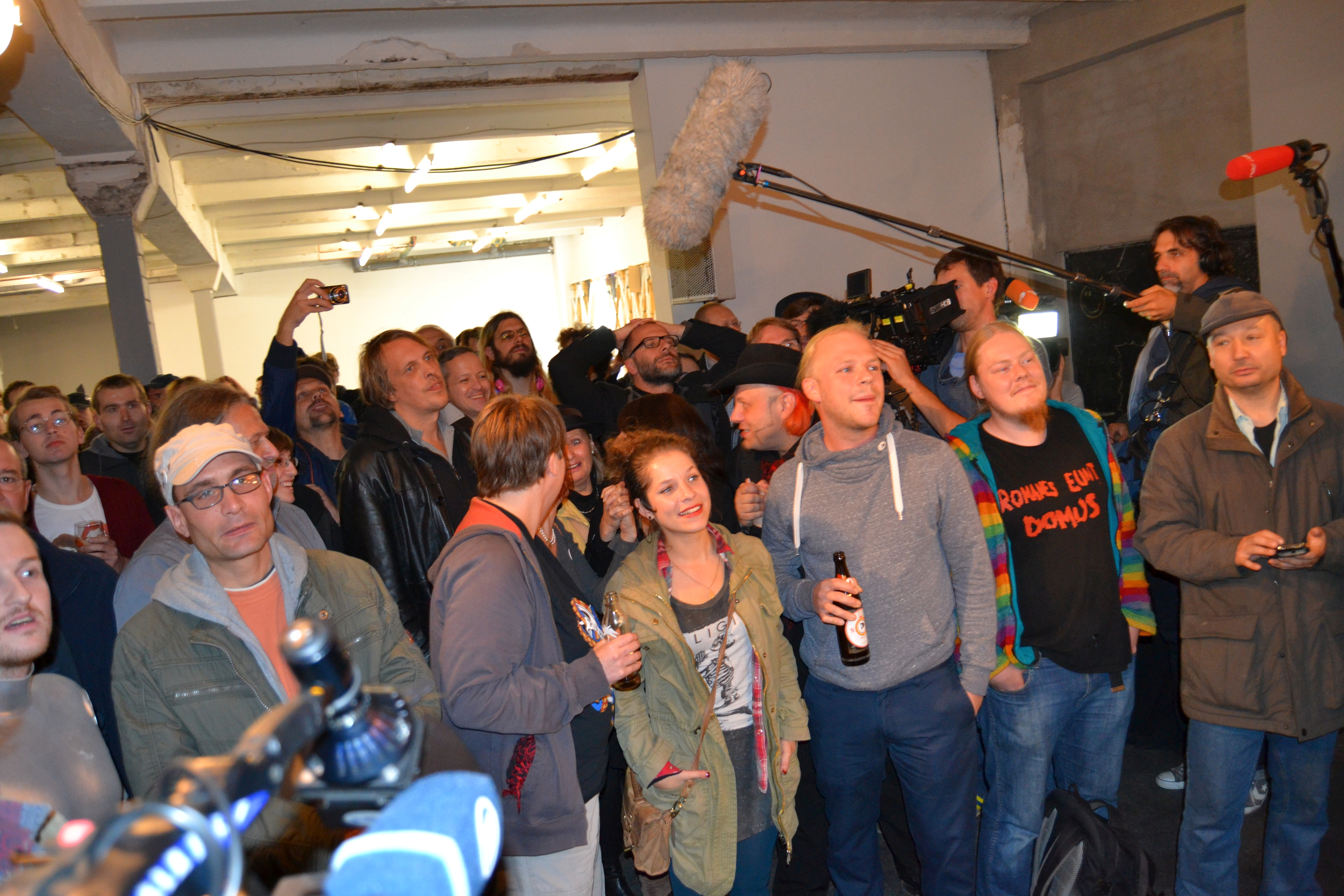 The federal election party PIRATEN for the parliamentary election in 2013